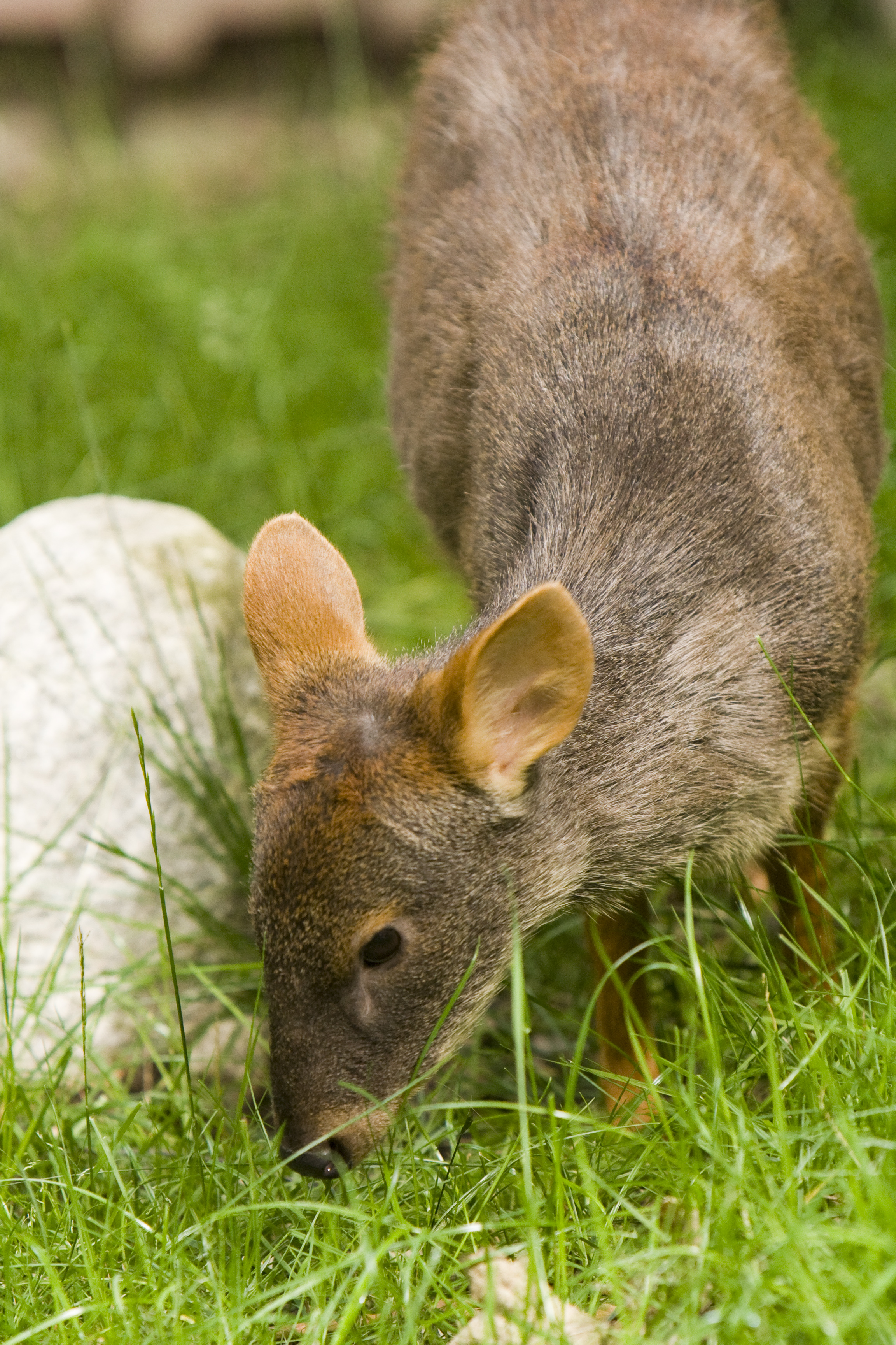 Pudu puda